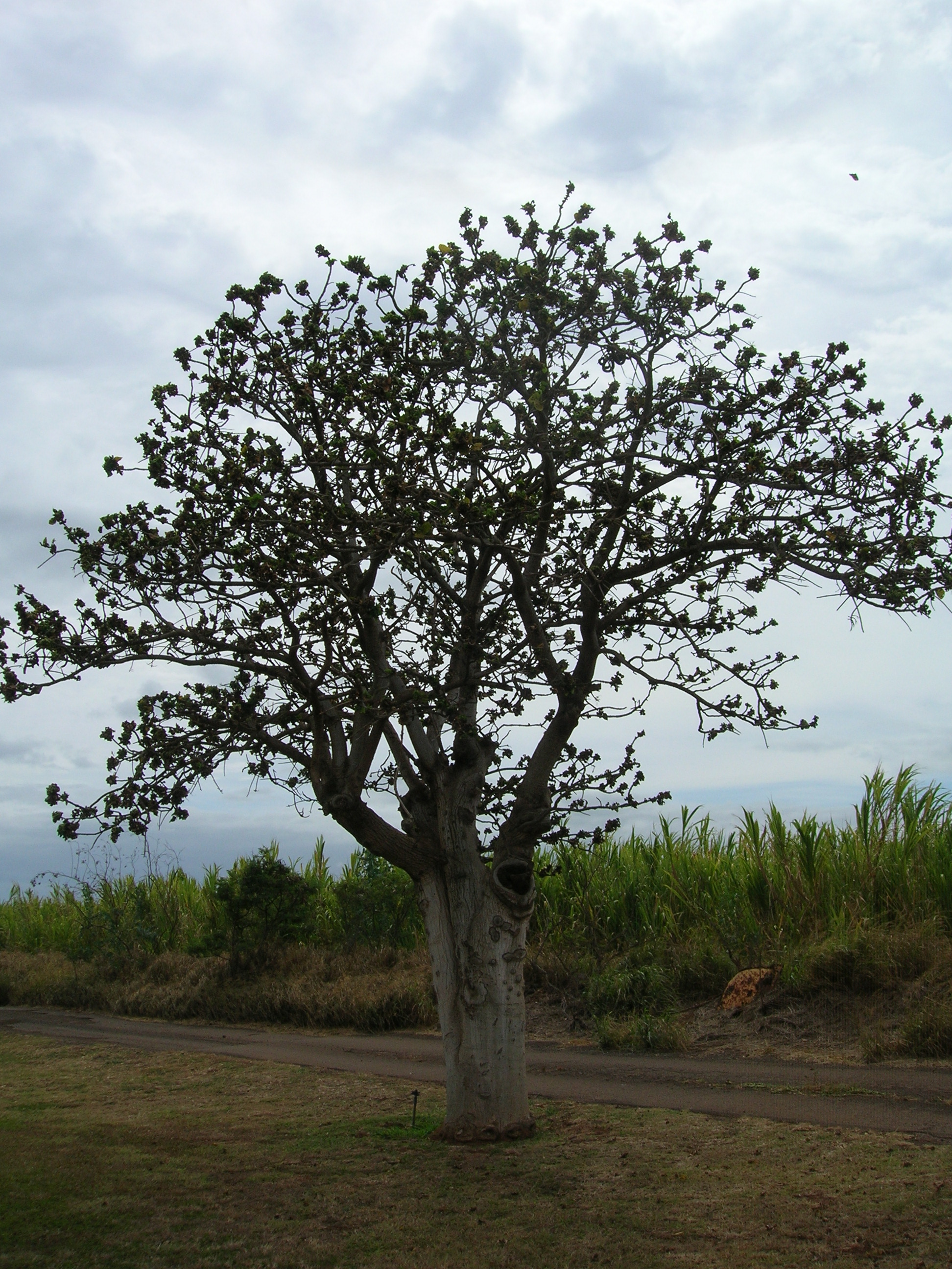 Erythrina variegata (habit). Location: Maui, Kahului Airport